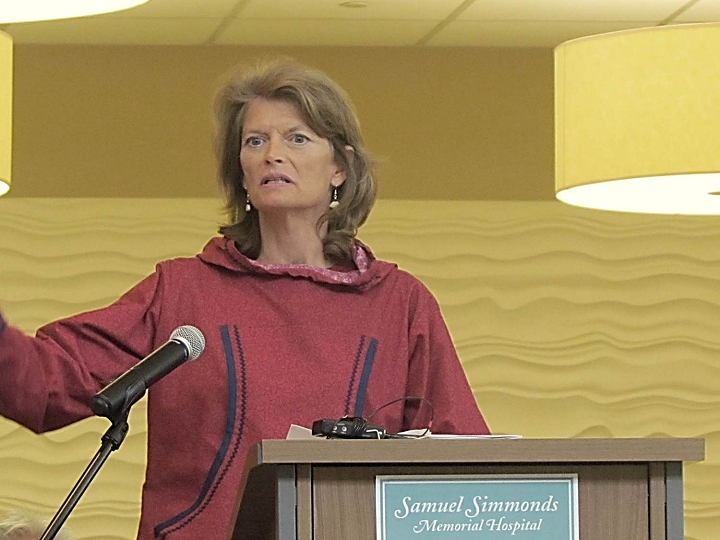 Senator Lisa Murkowski wearing a kuspuk at the dedication of Samuel Simmonds Memorial Hospital